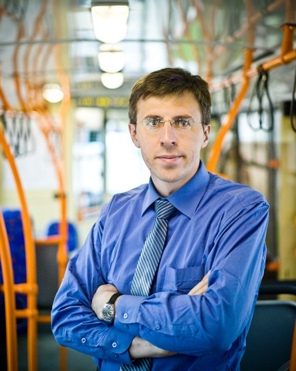 Dorin Chirtoacă în troleibuz.